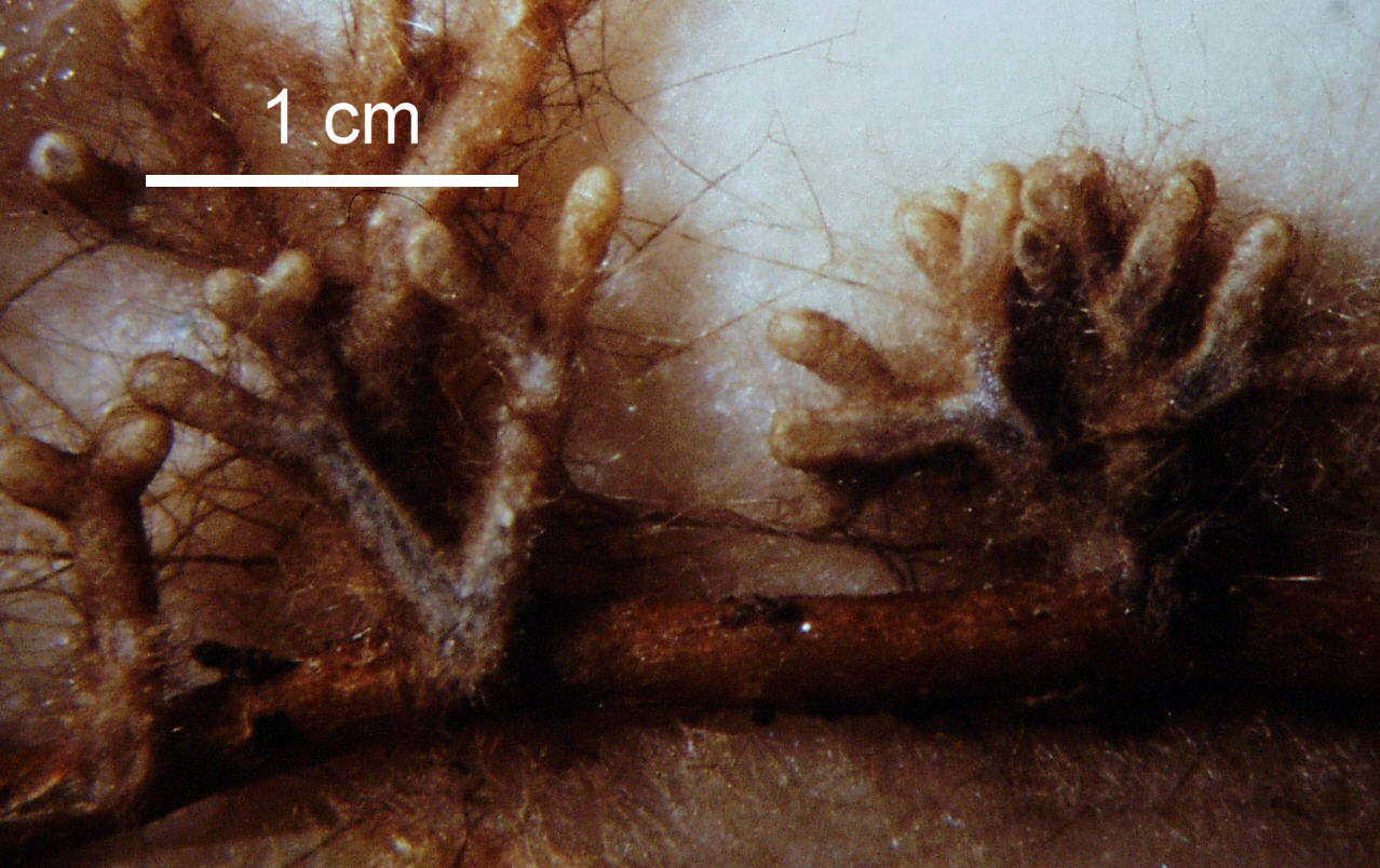 The making of this document was supported by the Community-Budget of Wikimedia Germany.